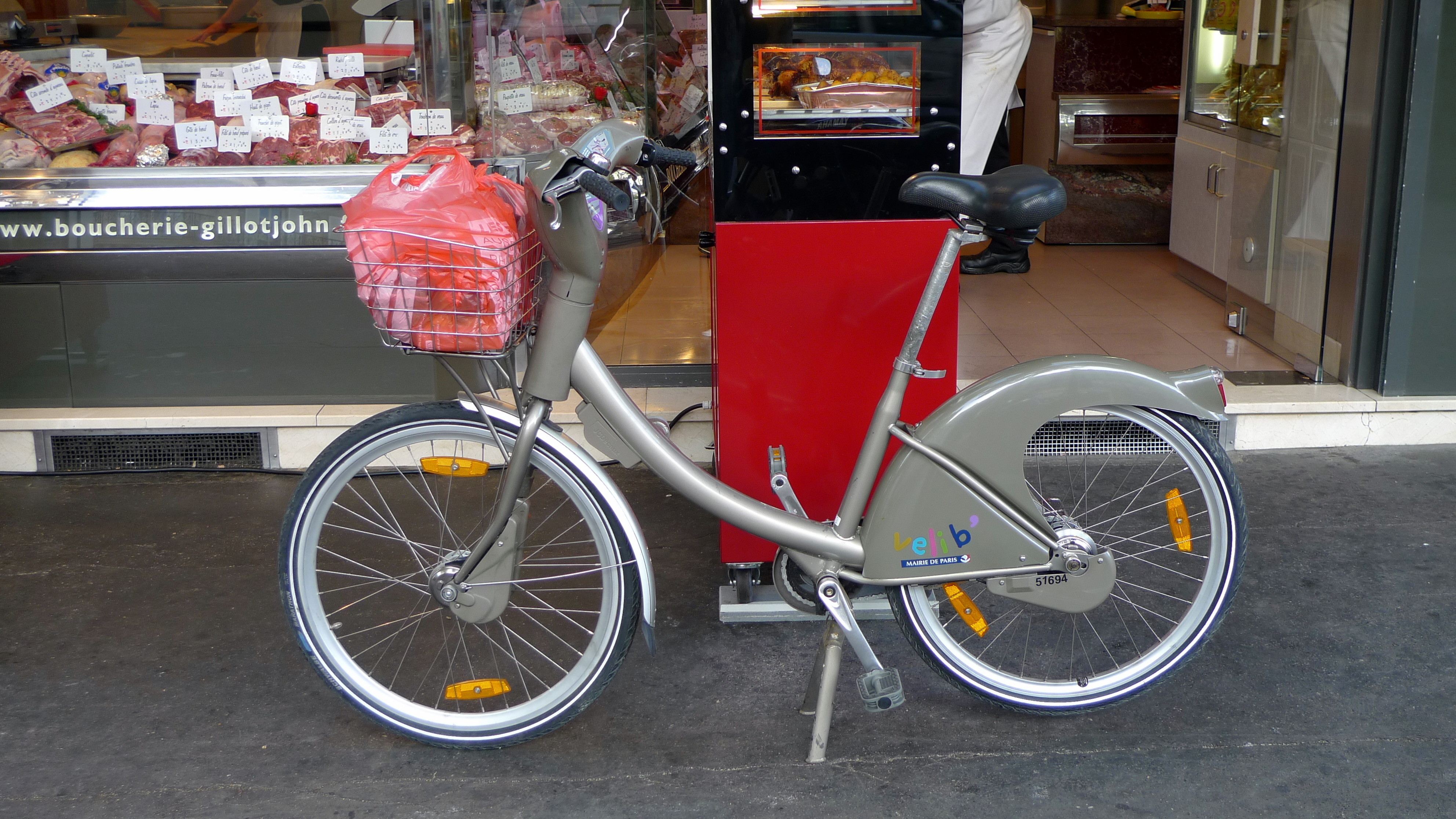 Vélib', Paris, France.